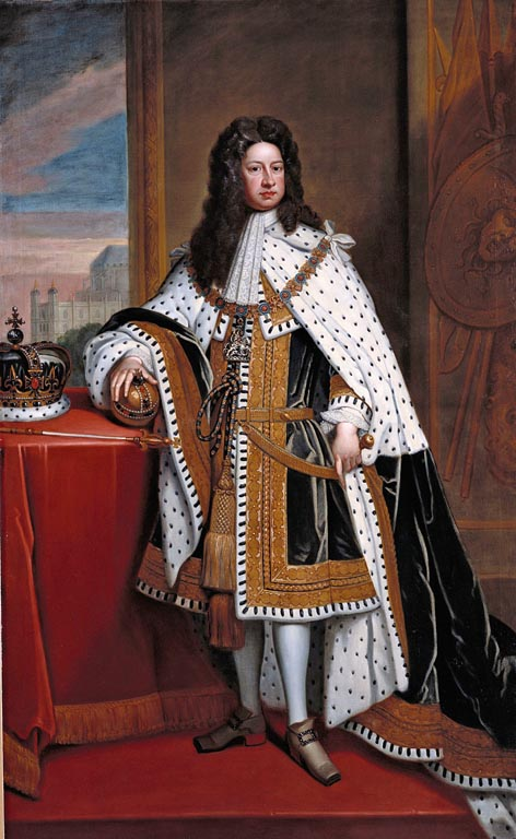 George I of Great Britain in state robes